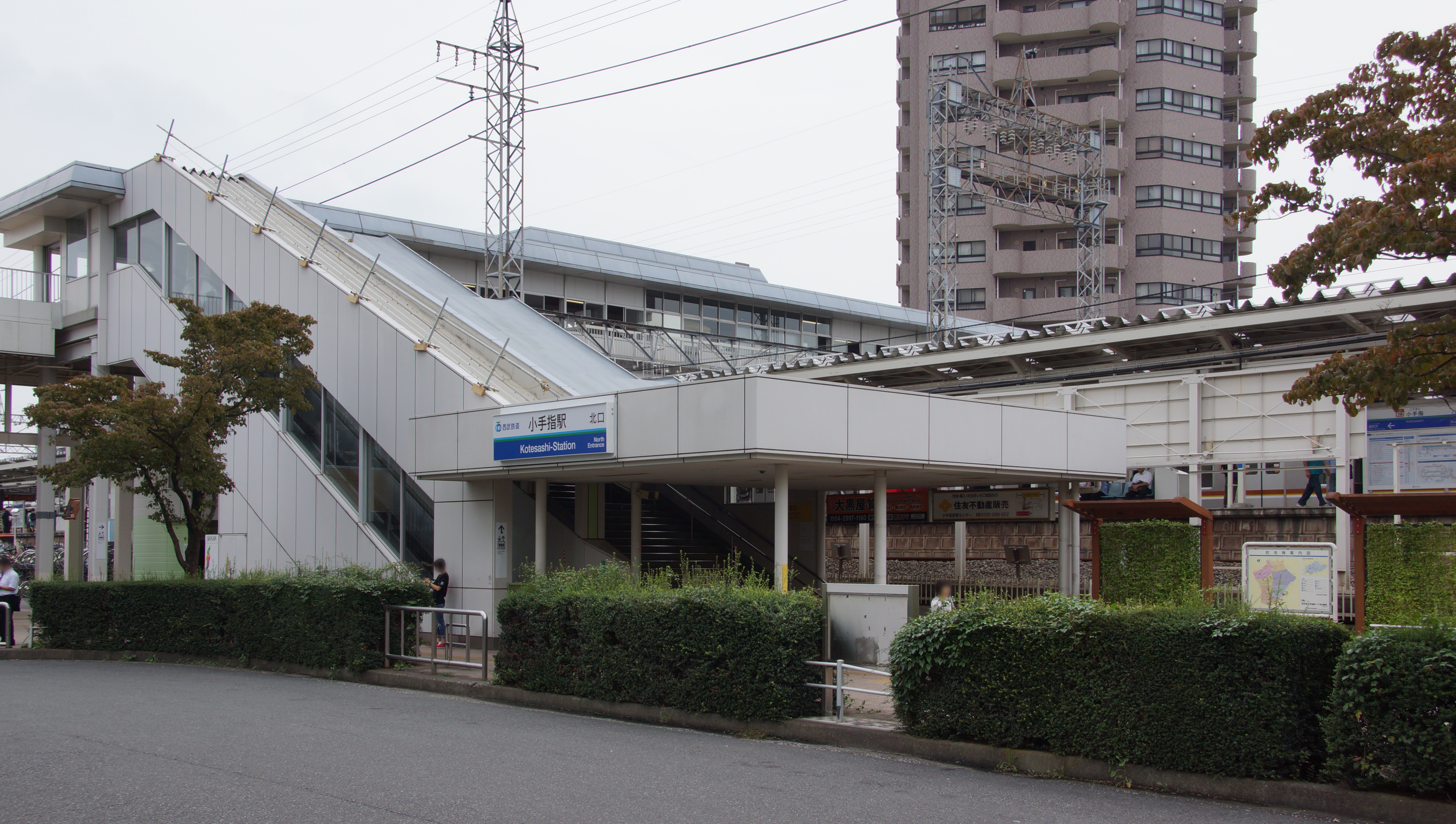 The north entrance of Kotesashi Station on the Seibu Ikebukuro Line in Tokorozawa, Saitama Prefecture, Japan